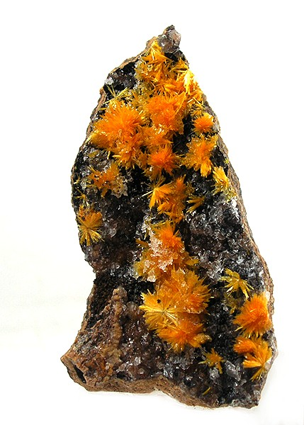 Boltwoodite Locality: Goanikontes Claim, Arandis, Swakopmund District, Erongo Region, Namibia (Locality at ) The orange to yellow boltwoodite is contrasted on the best possible matrix from this locality, a contrasting black quilt of dark calcite. 5.2 x 3 x 2cm